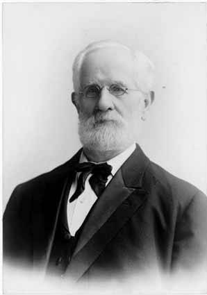 Handwritten on mount: Charles Prosch, August 20, 1909. Born June 25, 1820. Caption on mount: James & Bushnell, Seattle Filed in Portraits--Prosch, Charles Charles Prosch (1822-1913) was a pioneer newspaper publisher who had been issuing papers in Steilacoom and Olympia since 1858. Subjects (LCTGM): Newspaper editors--Washington (State)--Seattle Subjects (LCSH): Prosch, Charles, 1822-1913; Newspapers--Ownership